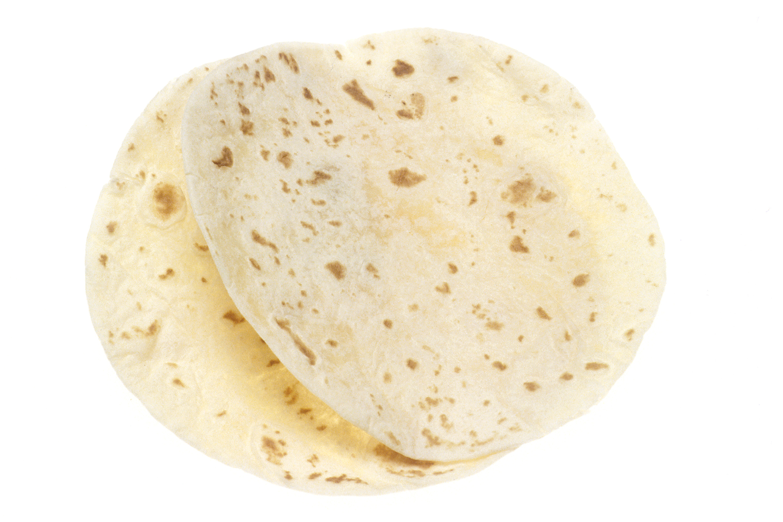 Title Flour Tortilla Description Two single cooked flour tortillas. Topics/Categories Food and Drink Type Color, Photo Source National Cancer Institute